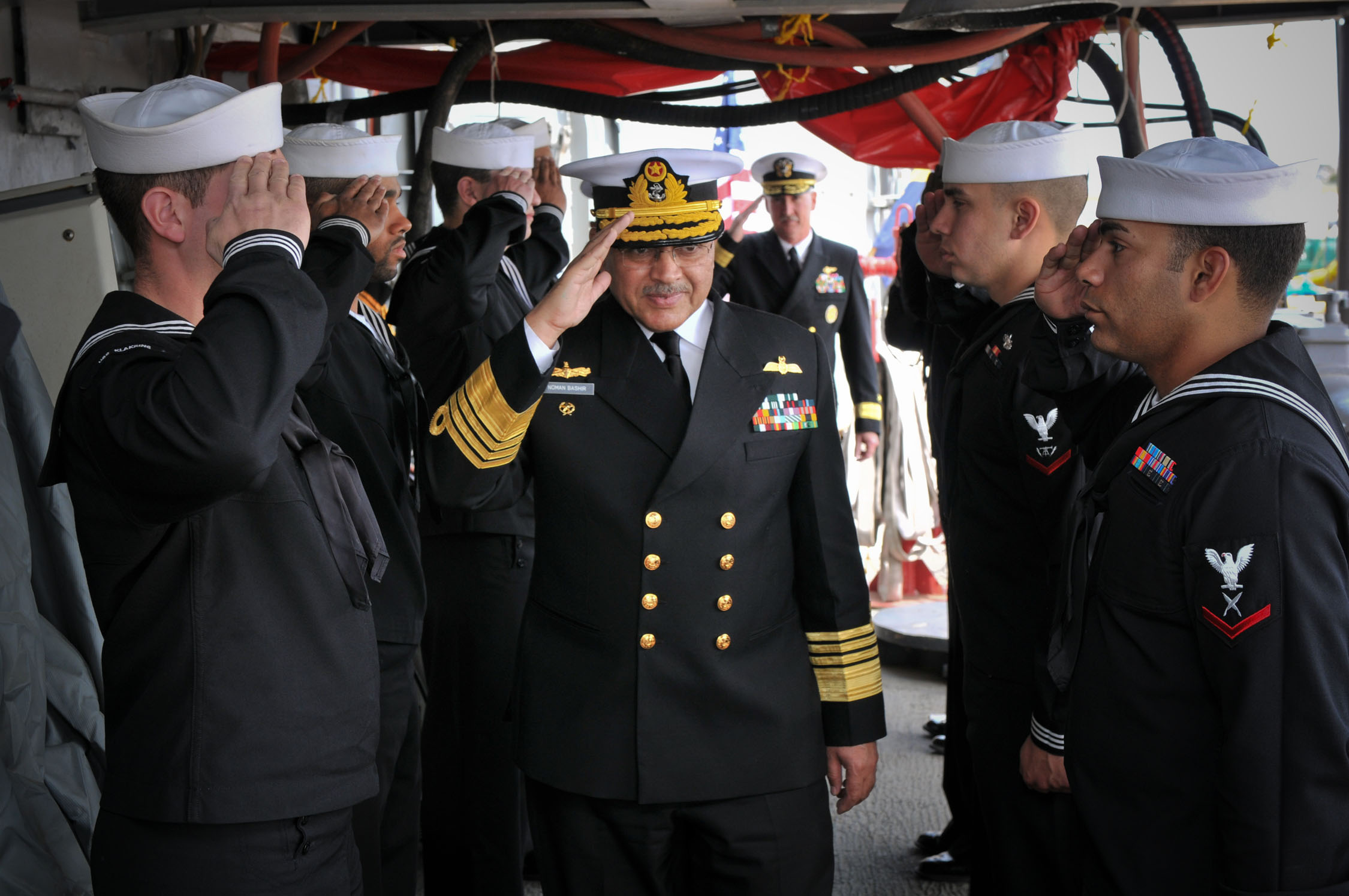 MAYPORT, Fla. (March 24, 2010) Chief of Naval Staff of the Pakistan Navy Adm. Noman Bashir departs the guided-missile frigate USS Klakring (FFG 42) after a ship tour. Bashir is in the United States on a ten-day visit at the invitation of the U.S. Navy. Bashir is scheduled to meet with various U.S. military and government officials to discuss opportunities for continued coordination and cooperation between the U.S. and Pakistan navies. (U.S. Navy photo by Mass Communication Specialist 2nd Class Gary Granger Jr./Released)